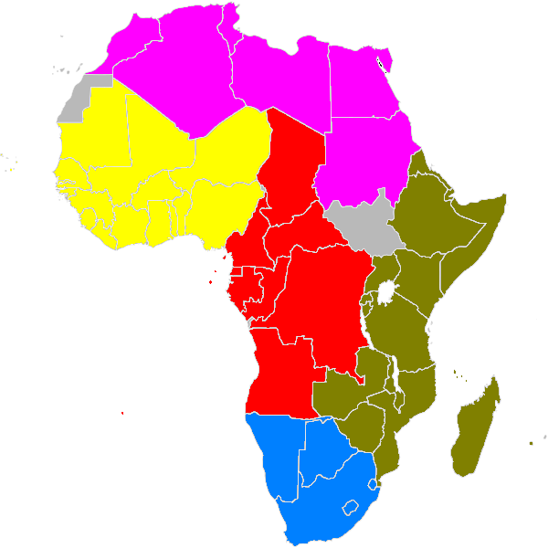 Volleyball zones of CAVB South Africa East Africa Central Africa West Africa North Africa